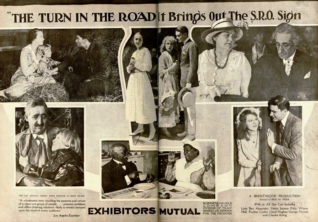 Ad for the American film The Turn in the Road (1919) with George Nichols, Lloyd Hughes, Winter Hall, Helen Jerome Eddy, Pauline Curley, child actor Ben Alexander, Charles Arling, and unidentified actors (not listed in credits), on page 1427 of the March 15, 1919 Moving Picture World.